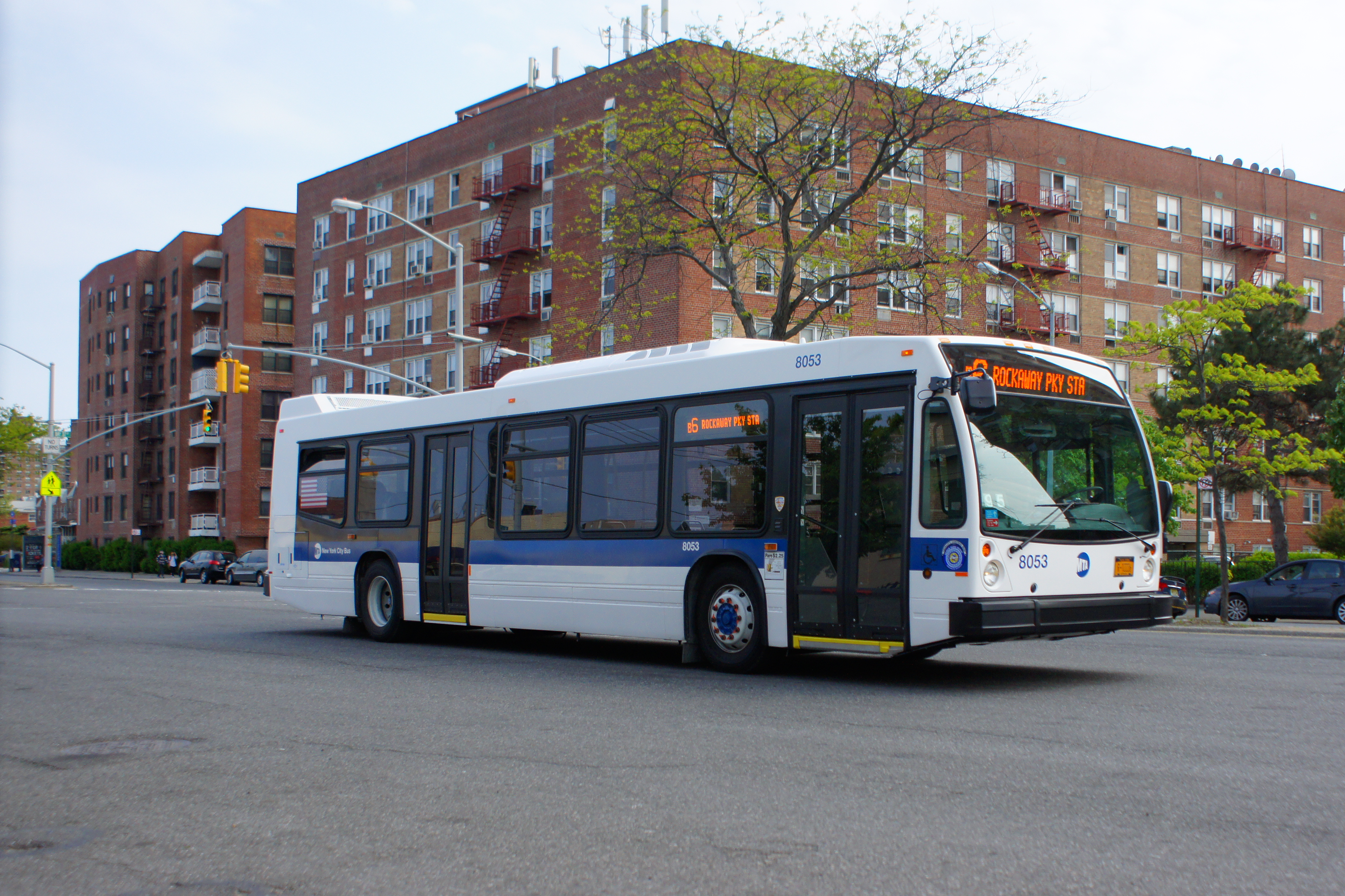 NYMTA